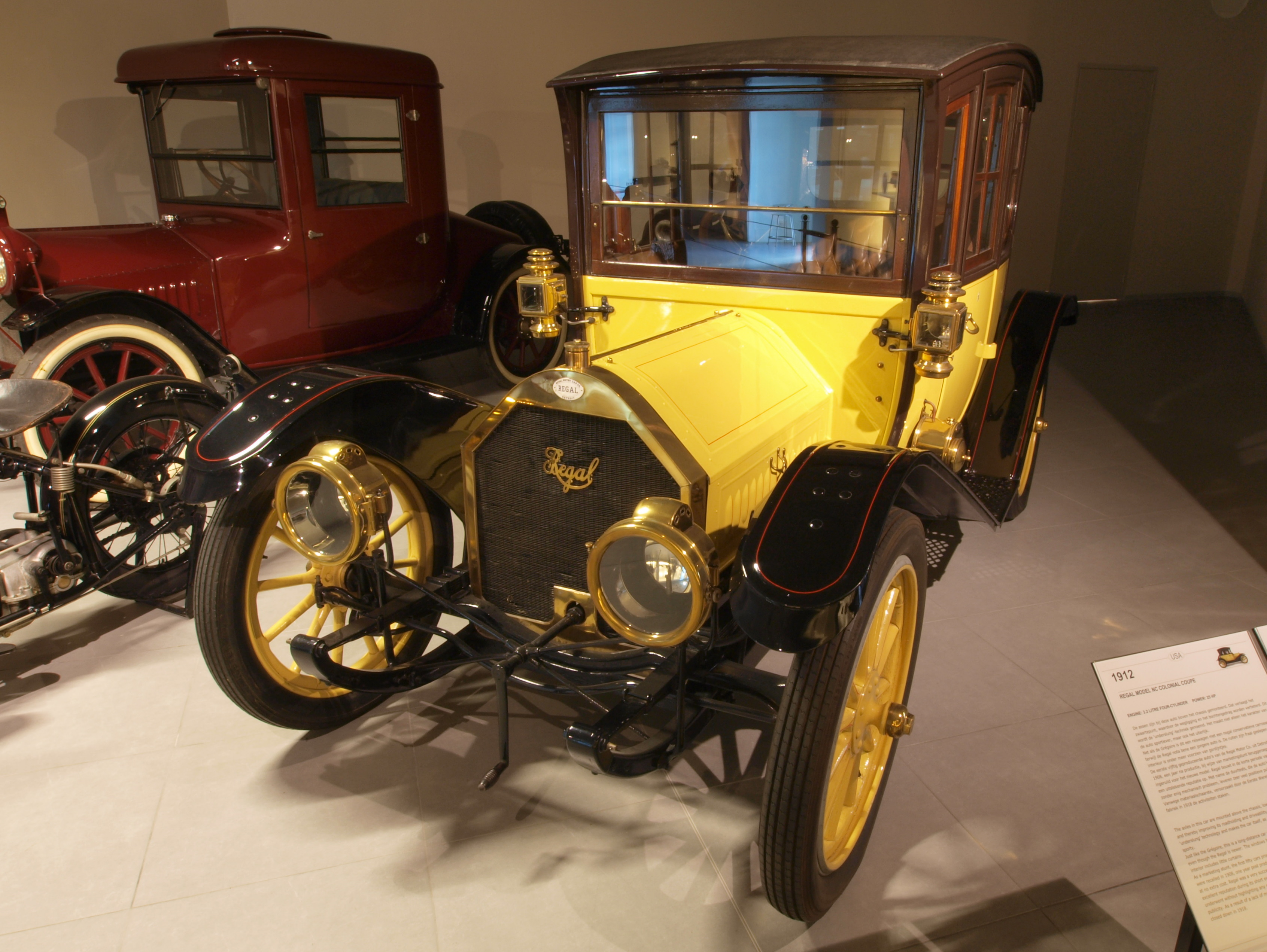 Photographed at the Louwman museum / Louwman Collection, The Netherlands.